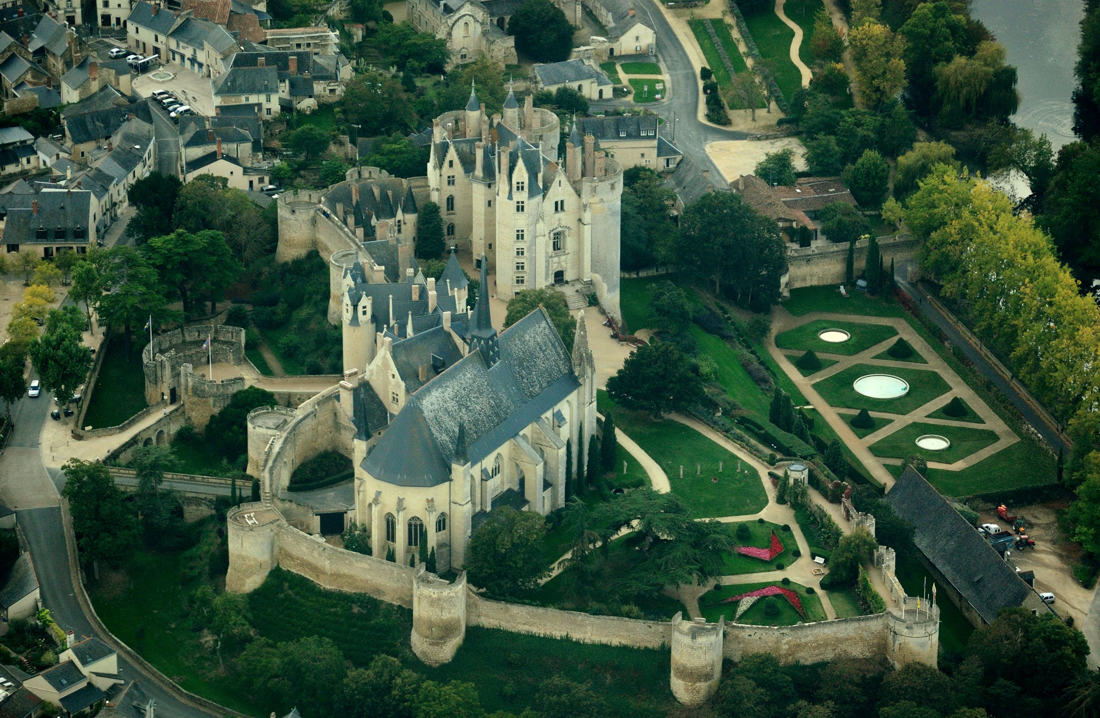 Aerial view of Montreuil-Bellay castle (Maine-et-Loire department, France). Nikon D60 f=82 f/5 at 1/400s ISO 400. Processed using Nikon ViewNX 1.3.0 and GIMP 2.6.6. A retouched version can be seen here.